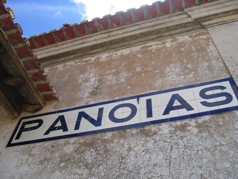 Railway station of Panoias out of service